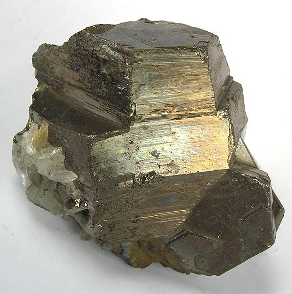 Pyrrhotite Locality: Morro Velho mine (incl. Mina Velha; Mina Grande), Nova Lima, Iron Quadrangle, Minas Gerais, Southeast Region, Brazil (Locality at ) Size: 7.9 x 6.4 x 4.4 cm. When you see a pyrrhotite these days, you pretty much assume it is from Russia - or perhaps Mexico. But this is an old Brazilian one from a working gold mine believe it or not, out of the notable collection of Gene Meieran. There are actually two intergrown crystals here, and the larger measures about 5 cm x 4 cm. The pyrrhotite has a fine bronzy luster. There are some accenting calcites on one side.